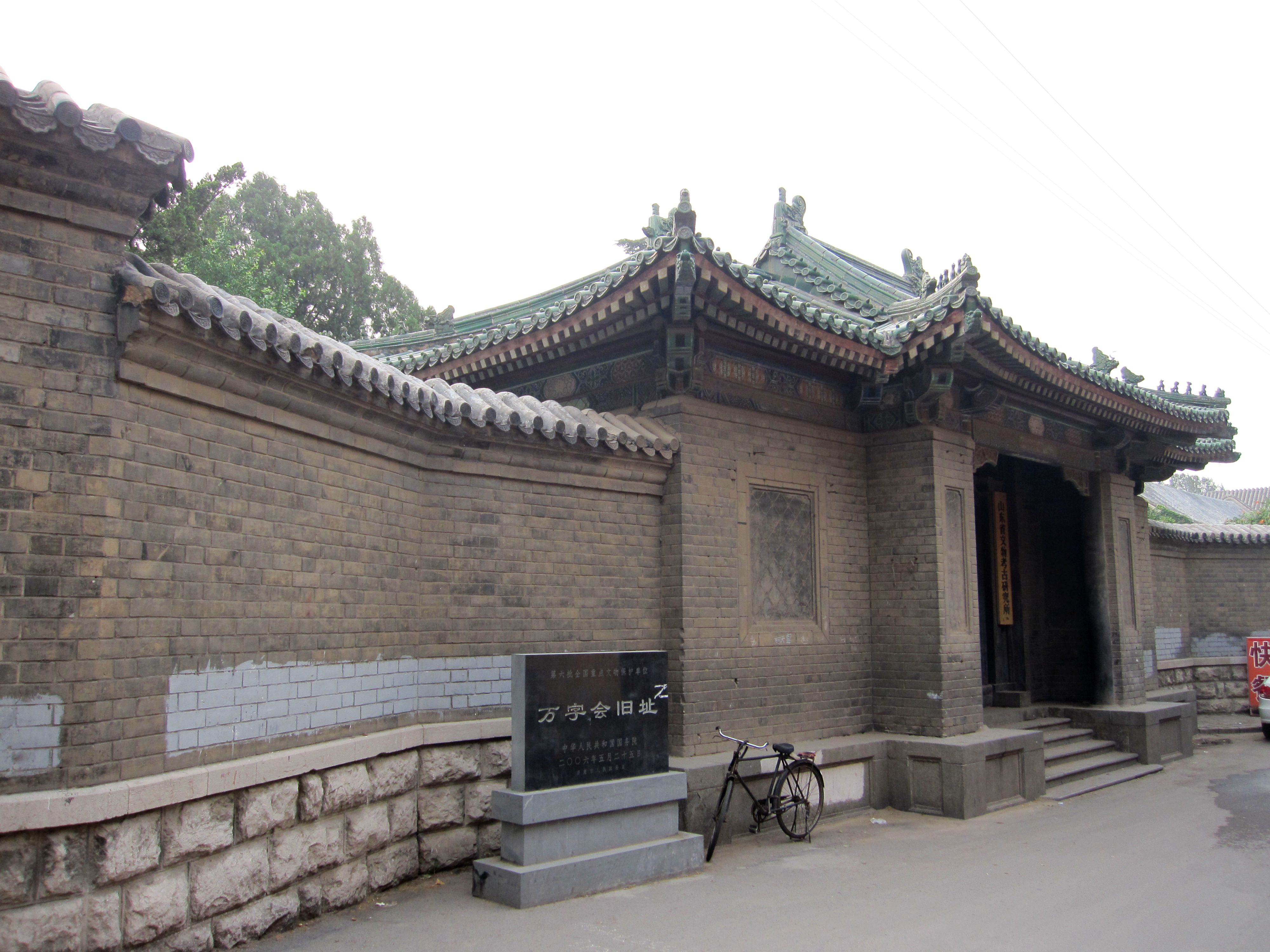 Former site of the "Dao Yuan", a compound operated by the Red Swastika Society in Jinan, China